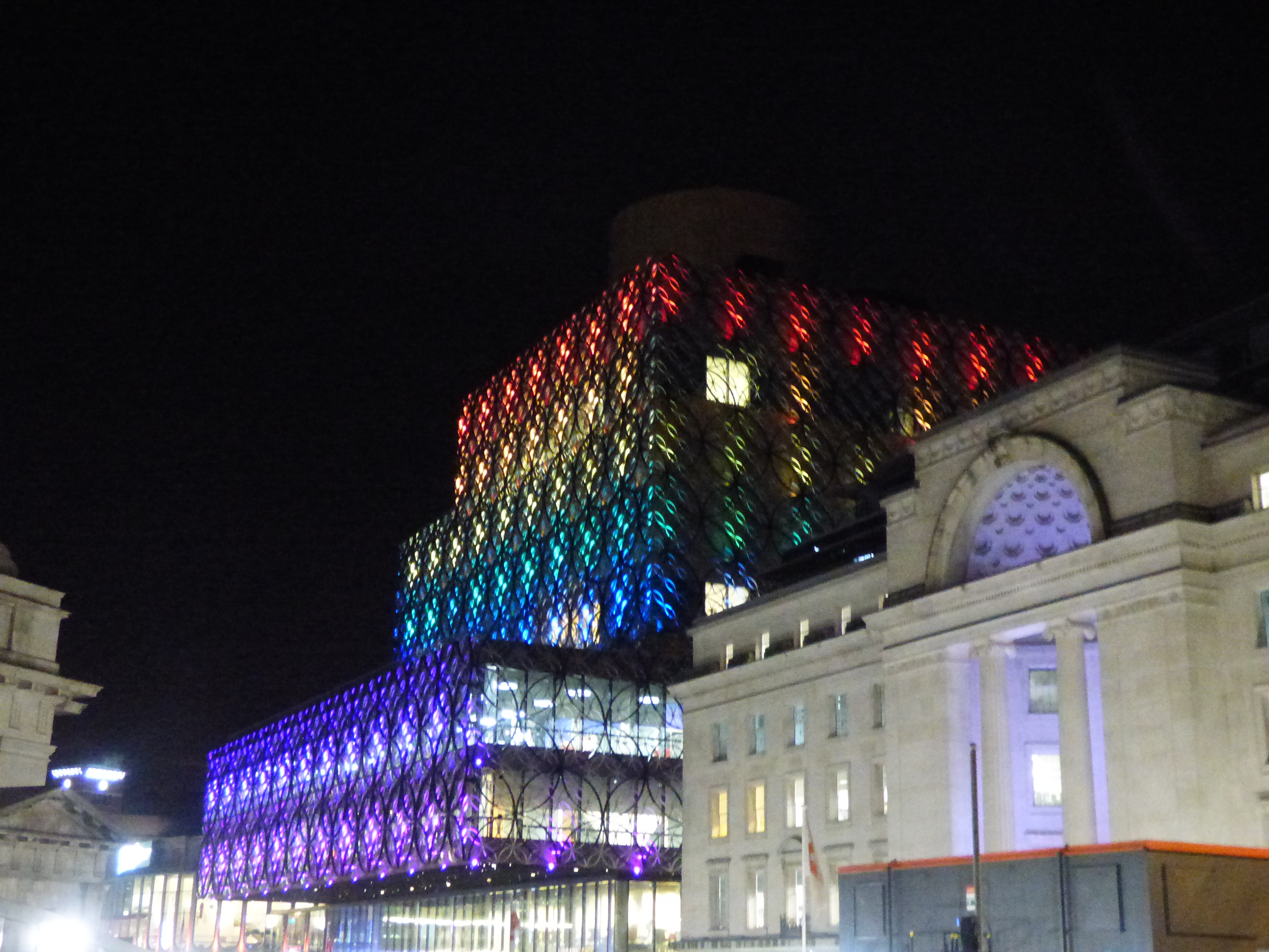 Library of Birmingham celebrates winning the Commonwealth Games 2022. The library when all the colours of the rainbow on the evening / night of Thursday 21st December 2017. On the day that it was officially confirmed that Birmingham will be hosting the Commonwealth Games in 2022! Birmingham 2022 Could only take it from certain places due to the hoardings in the way for the Centenary Square redevelopment, you can also see it from the other side of Arena Central.